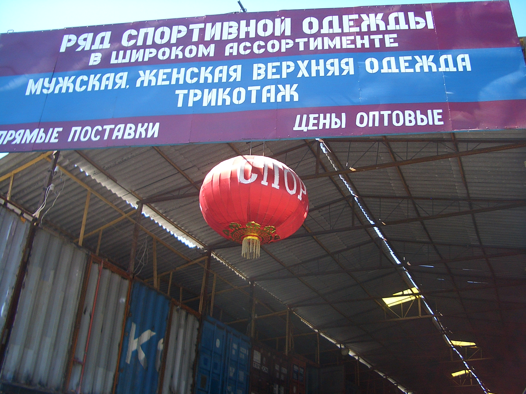 An entry to the sportswear section of Dordoy Bazaar, decorated with a Chinese style red lantern.